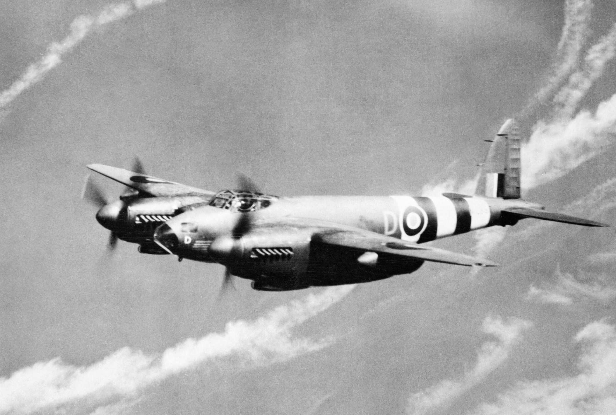 De Havilland Mosquito PR Mk IX of No. 1409 (Meteorological) Flight based at Wyton, Huntingdonshire, November 1944.